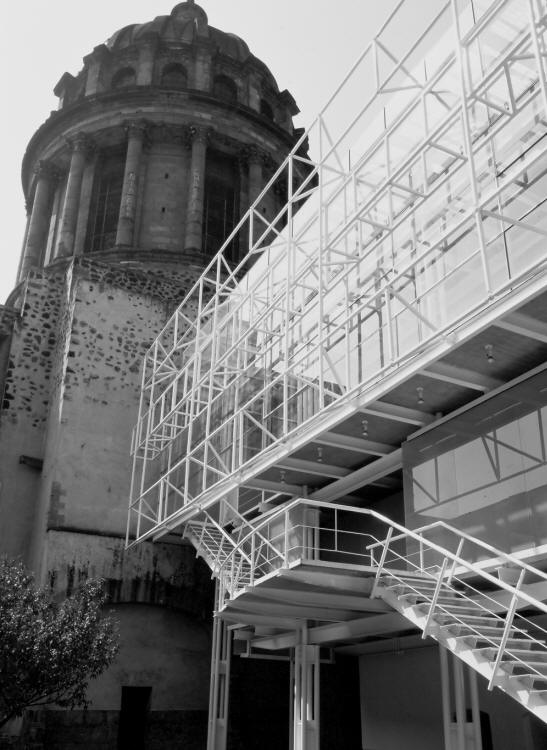 alternative arts centre, mexico city, 1996